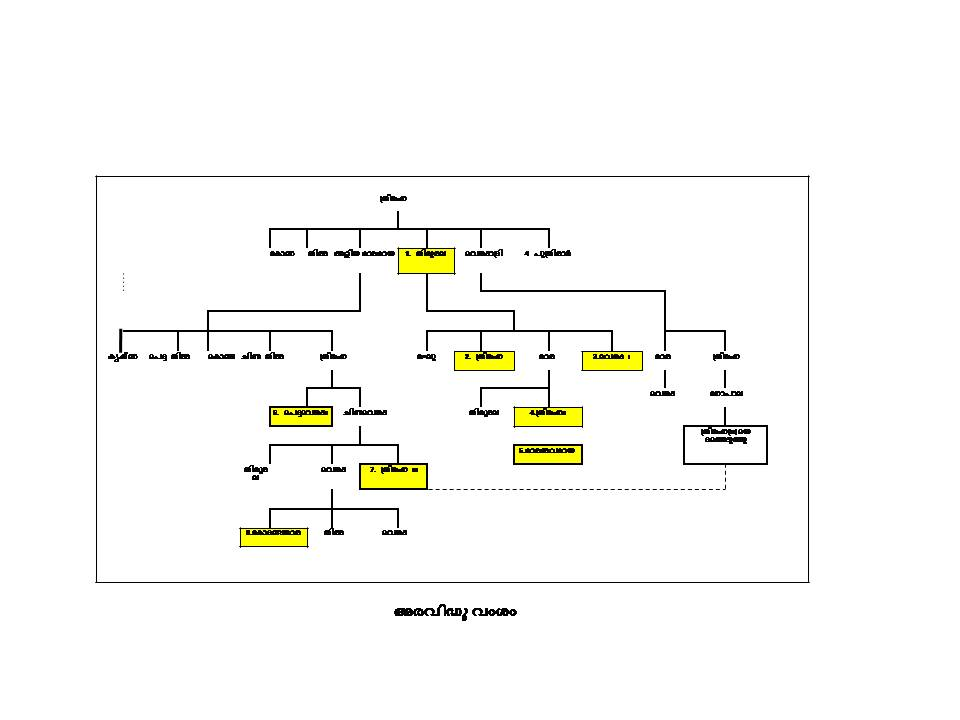 Aravidu dynasty of Vijayanagara Empire